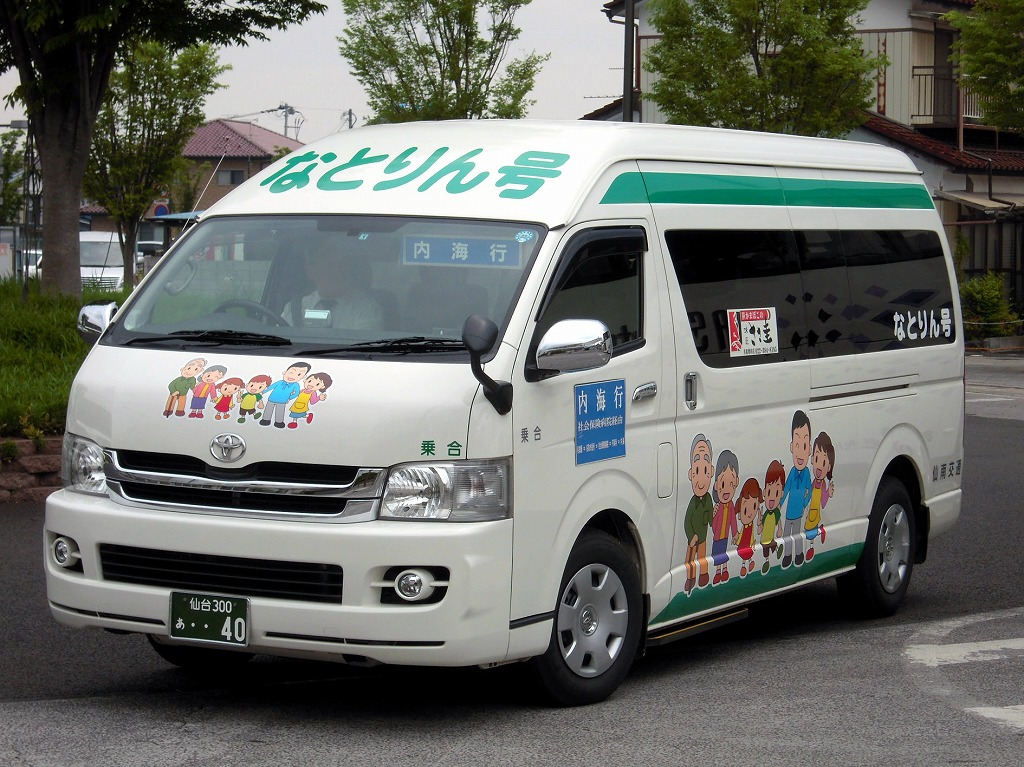 Sennan Kotsu Toyota Hiace (Natori city community bus "Natorin-go")